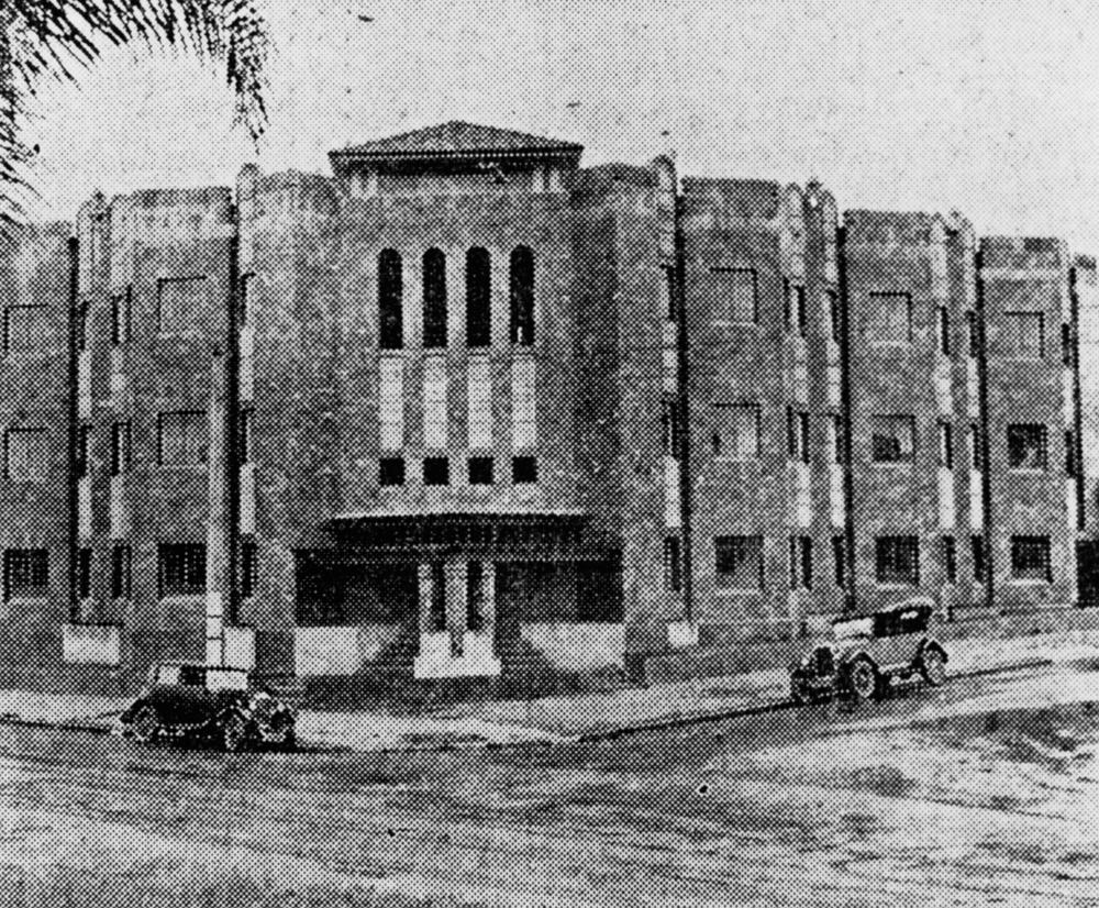 Coronet Flats in New Farm, Brisbane, 1933 Coronet Flats on the corner of Brunswick St and Elystan Rd. There are 9 flats in the Art Deco block.